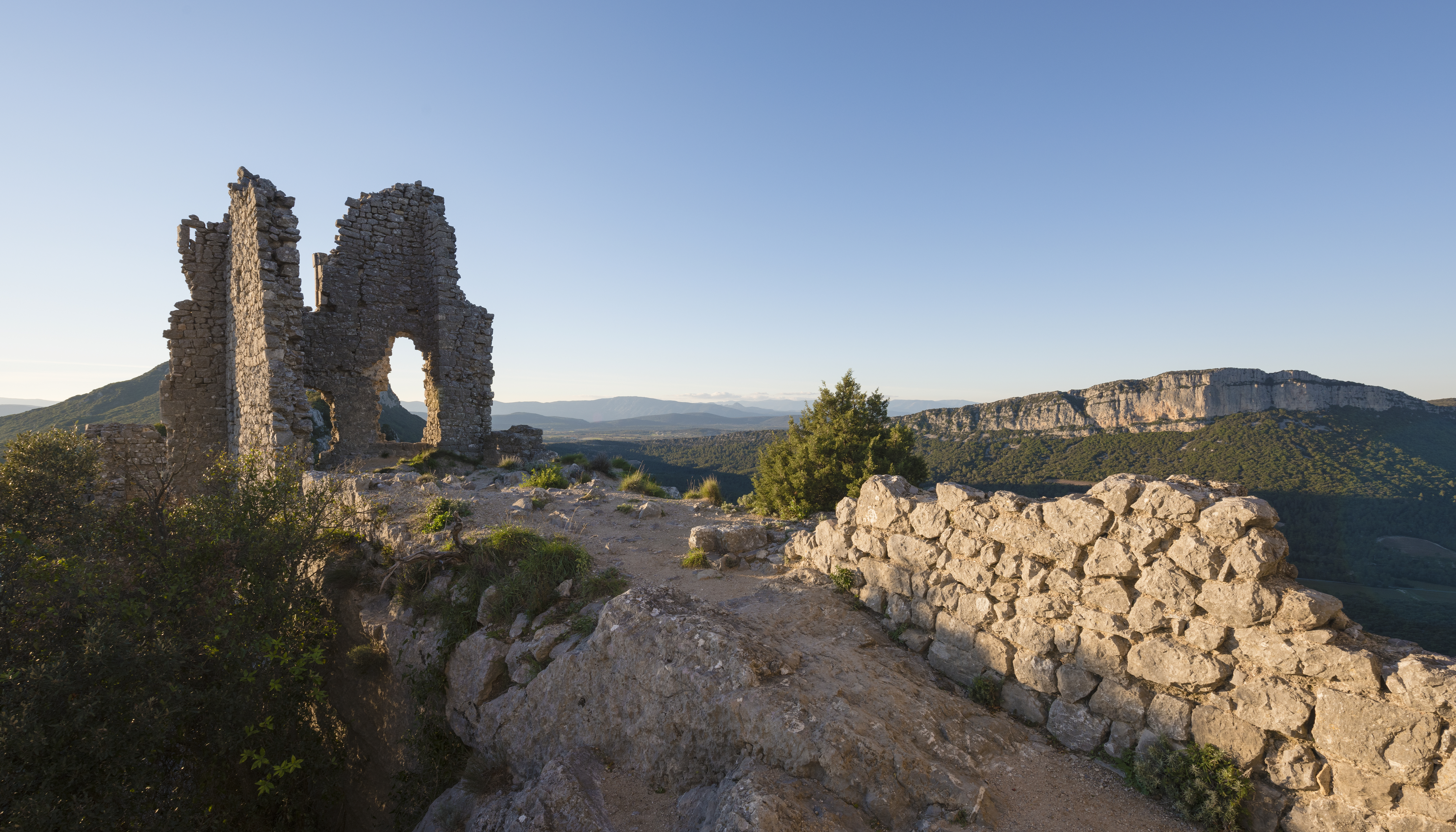 Ruins of the Castle of Montferrand (XIIth century). Saint-Mathieu-de-Tréviers, Hérault, France.